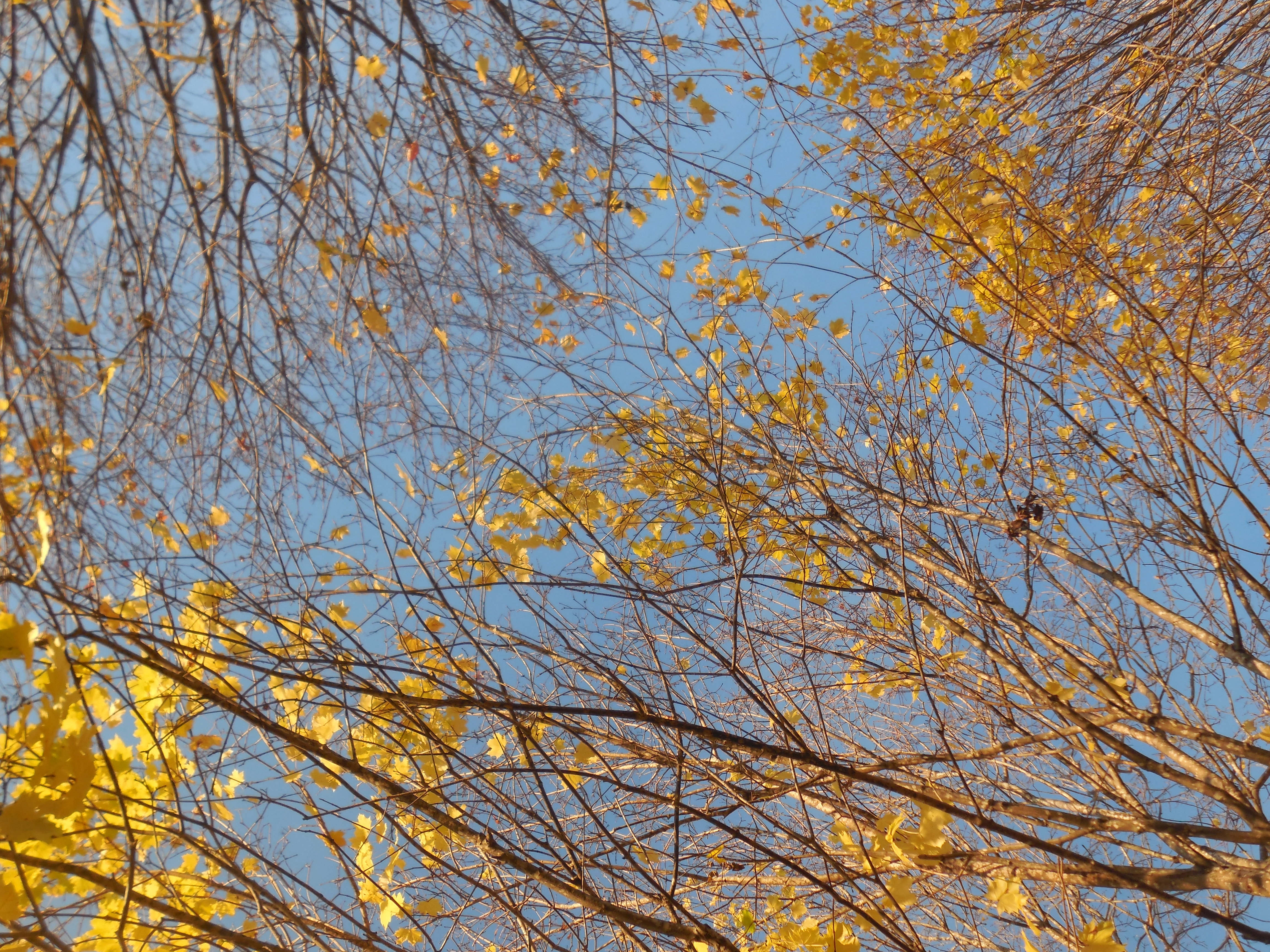 A Spring tree